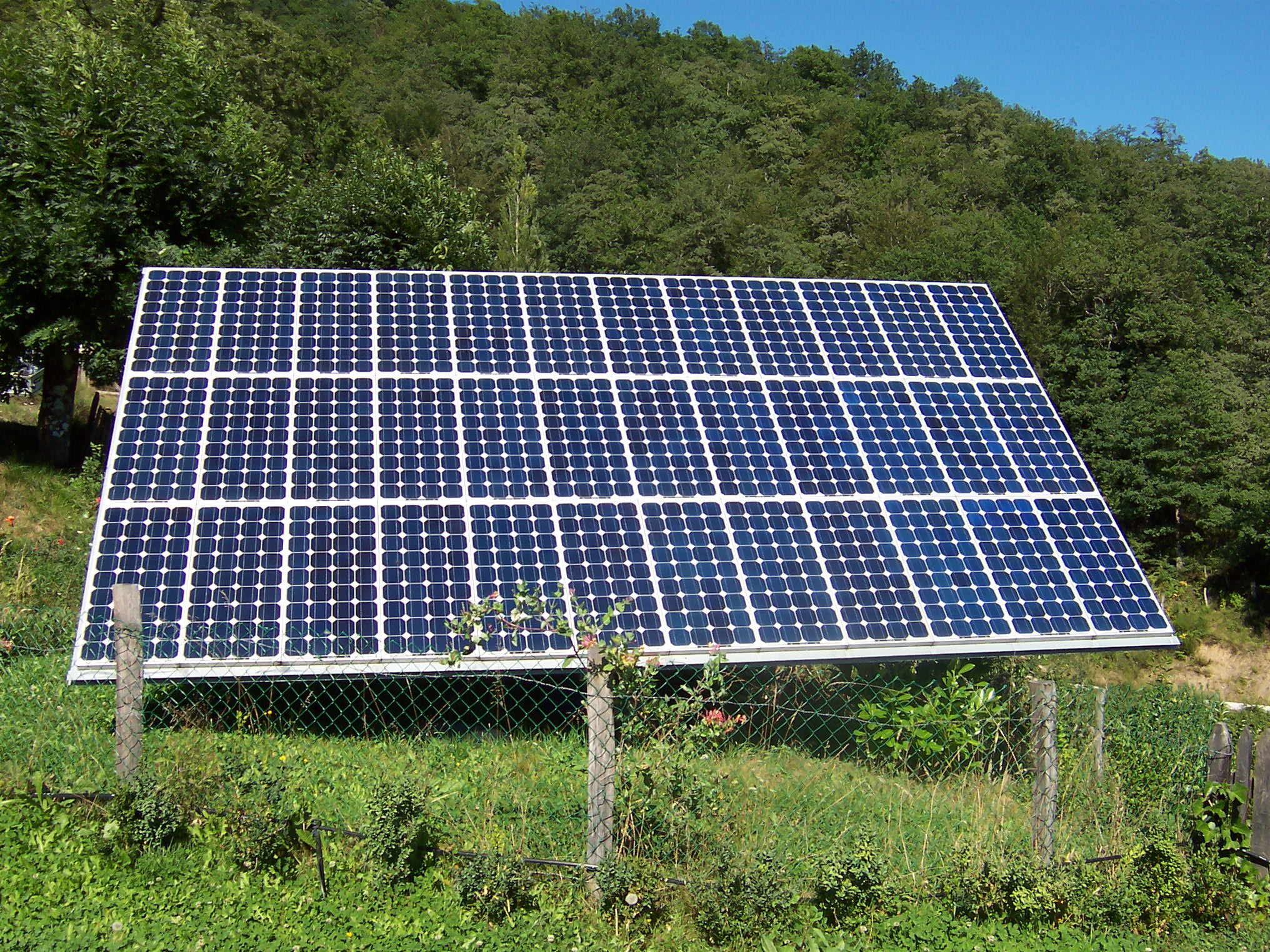 Photovoltaic panel